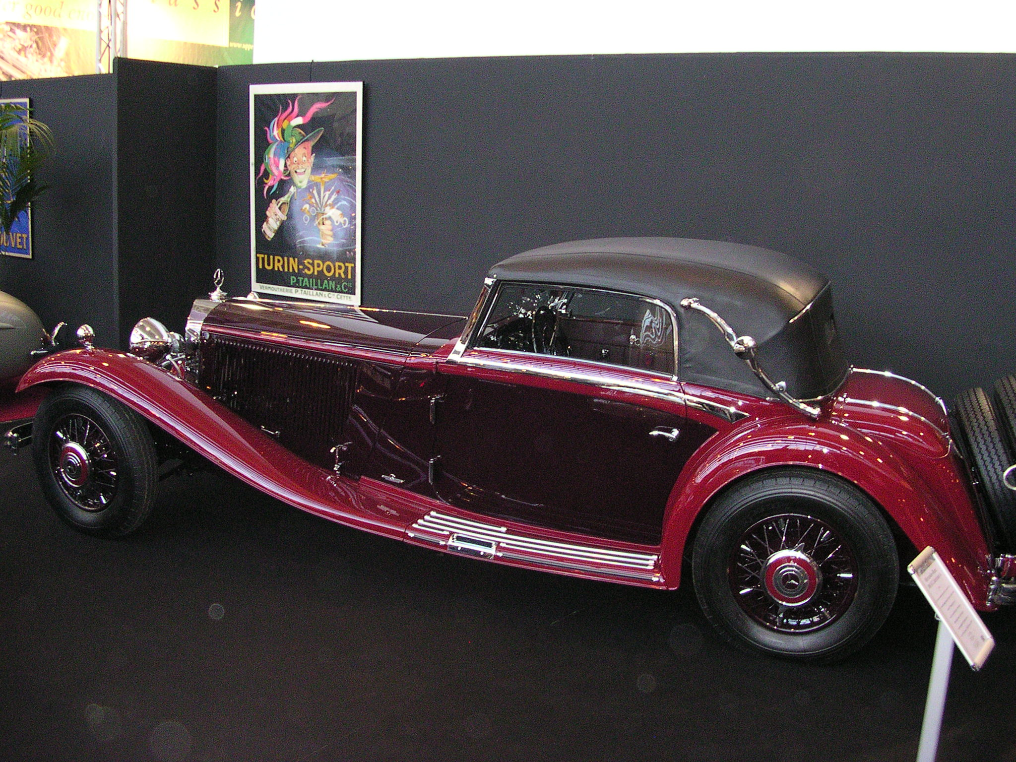 Essen Techno-Classica 2007, Mercedes-Benz 380 K Cabriolet A 1934